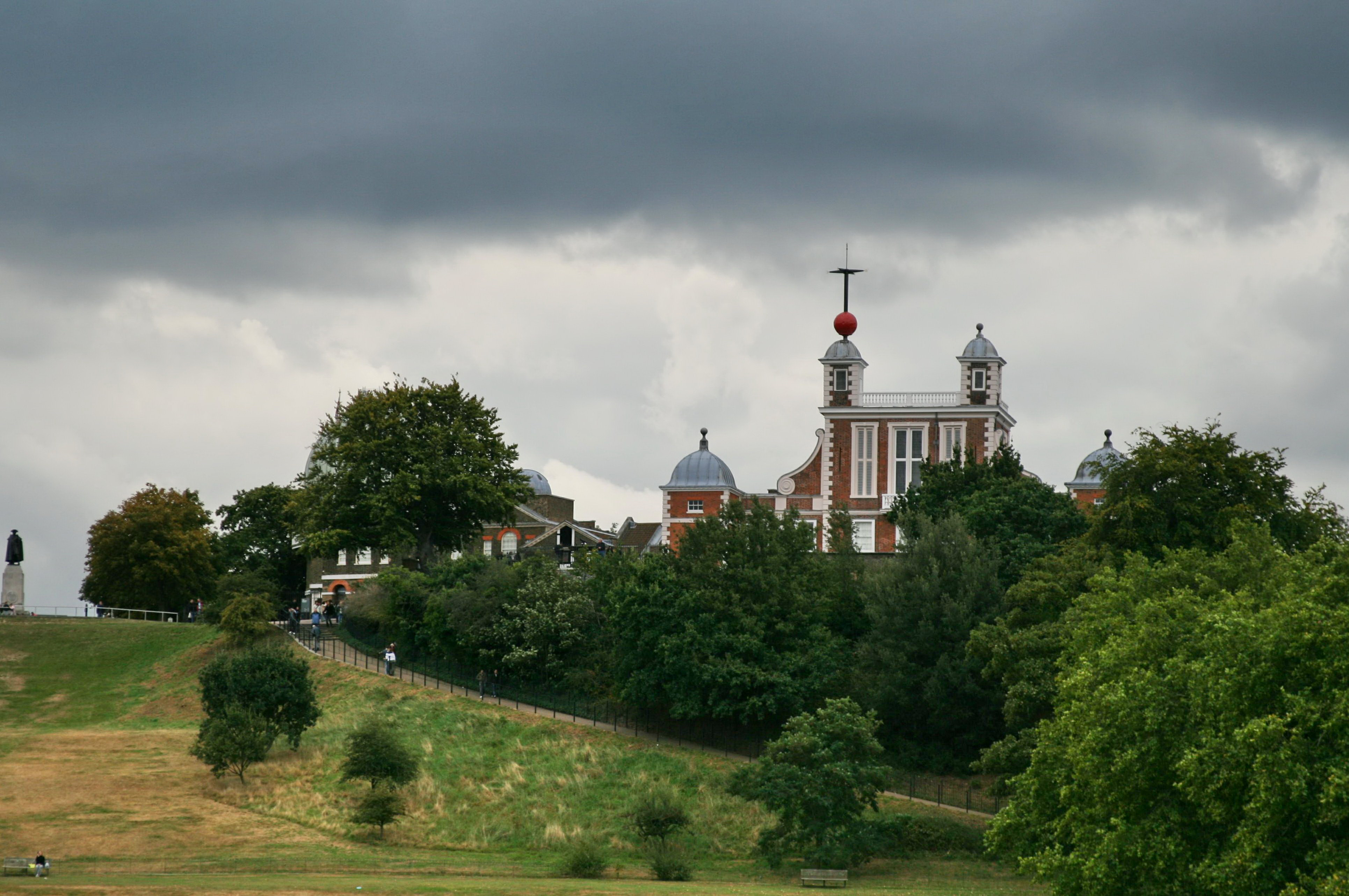 In and around London